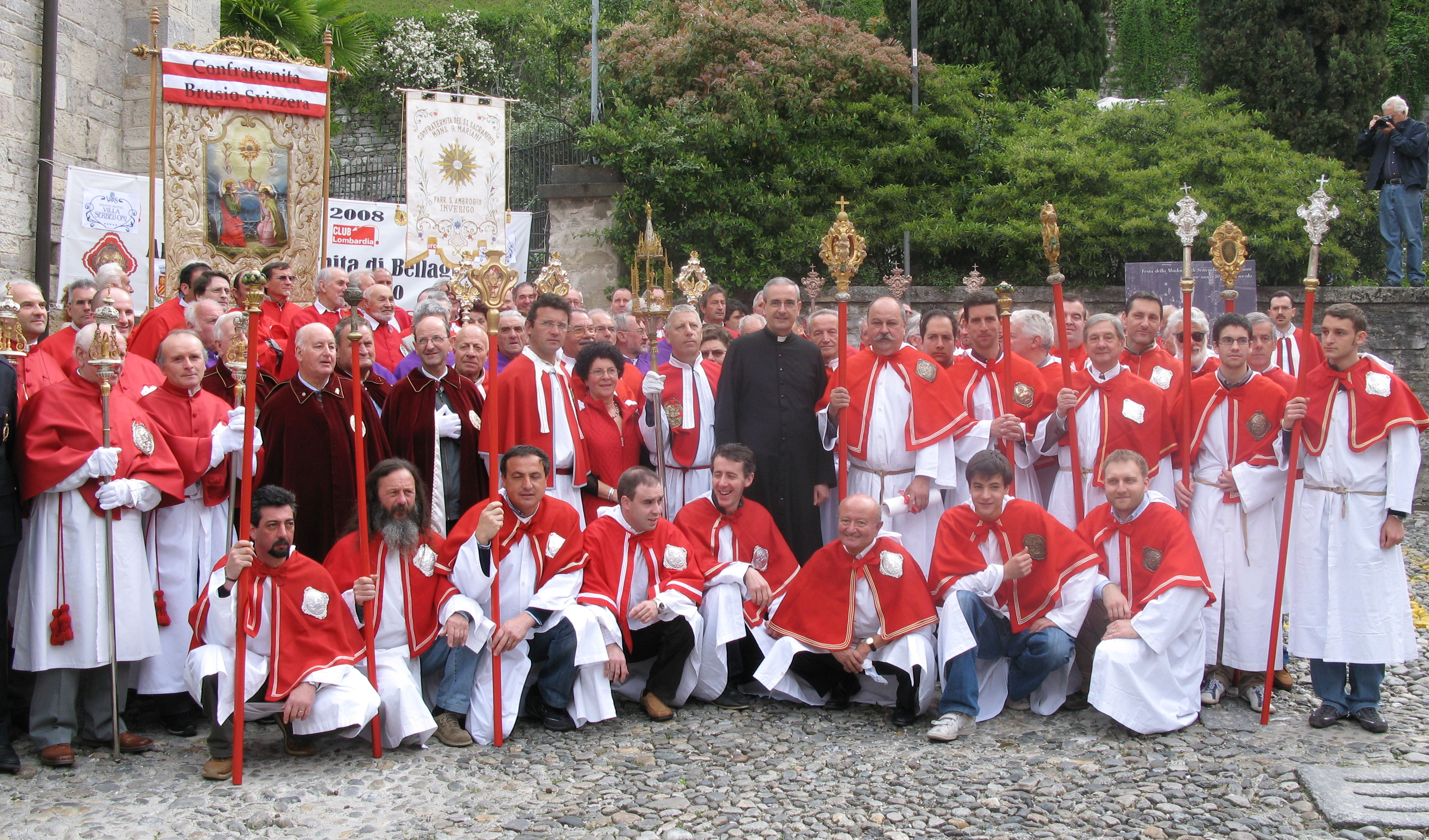 Bellagio's confraternita on its 350° birthday